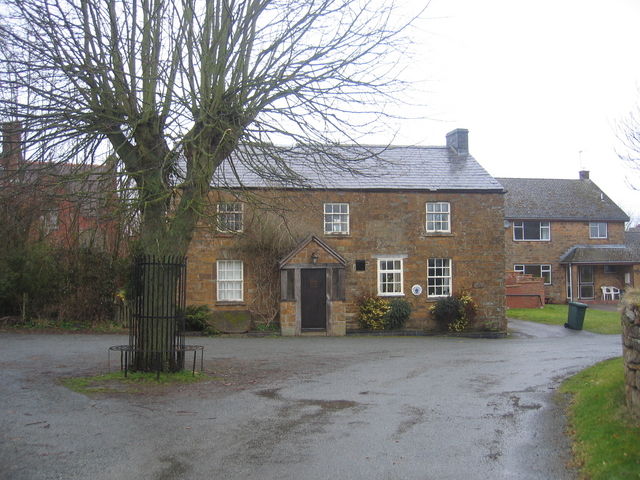 The former Sunrising Inn, Church Lane, Claydon, Oxfordshire, seen from the south. It closed in 1990 and is now a private house. The white and blue circular glazed plaque between the windows on the ground floor shows it was once a tied house of the Hunt Edmunds brewery of Banbury.